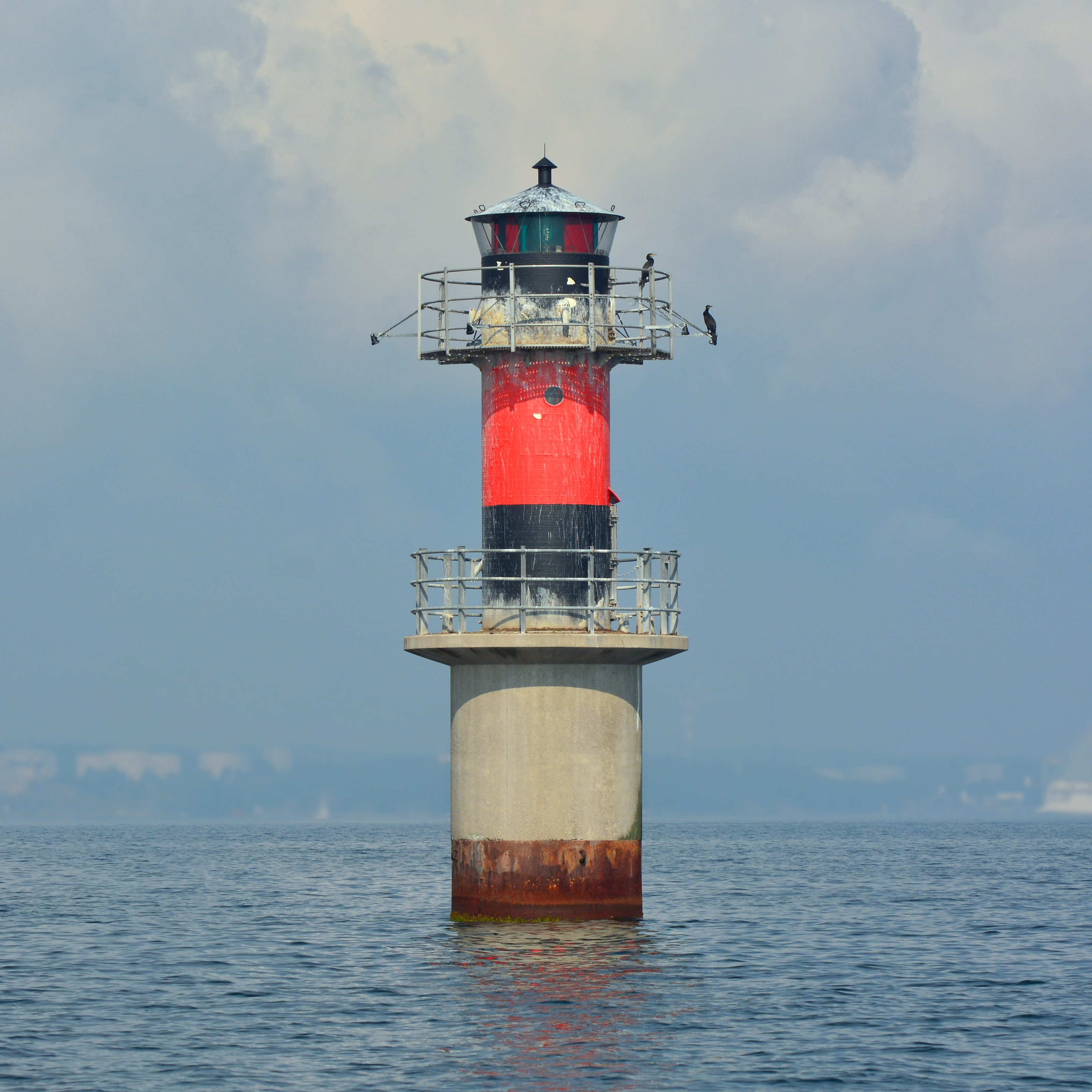 The lighthouse Örngrund east of Nynäshamn, Stockholm archipelago, Sweden.